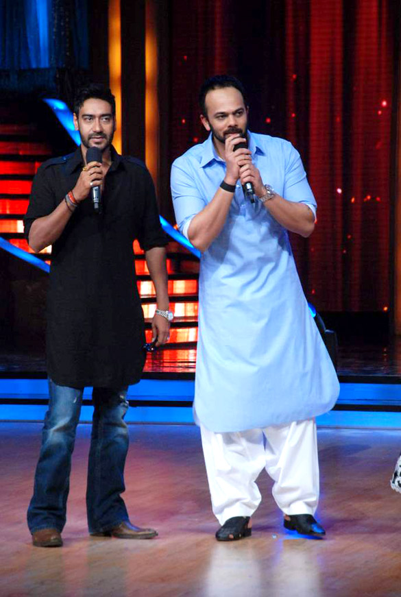 Ajay Devgn, Rohit Shetty on the sets of 'Jhalak Dikhhlaa Jaa 5'